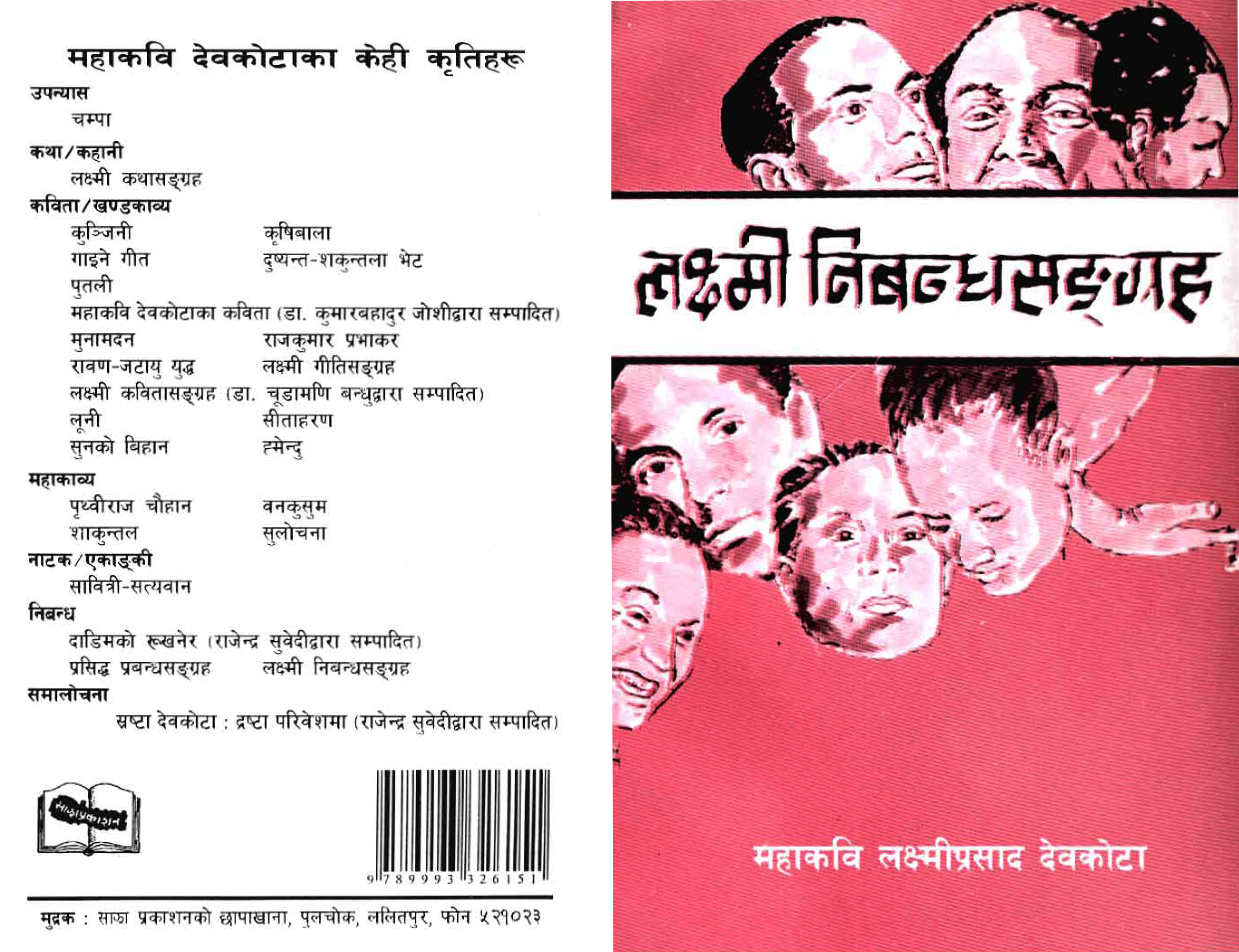 Book Cover of Laxmi Nibandha Sangraha a collection of Essays written by poet Laxmi Prasad Devkota.